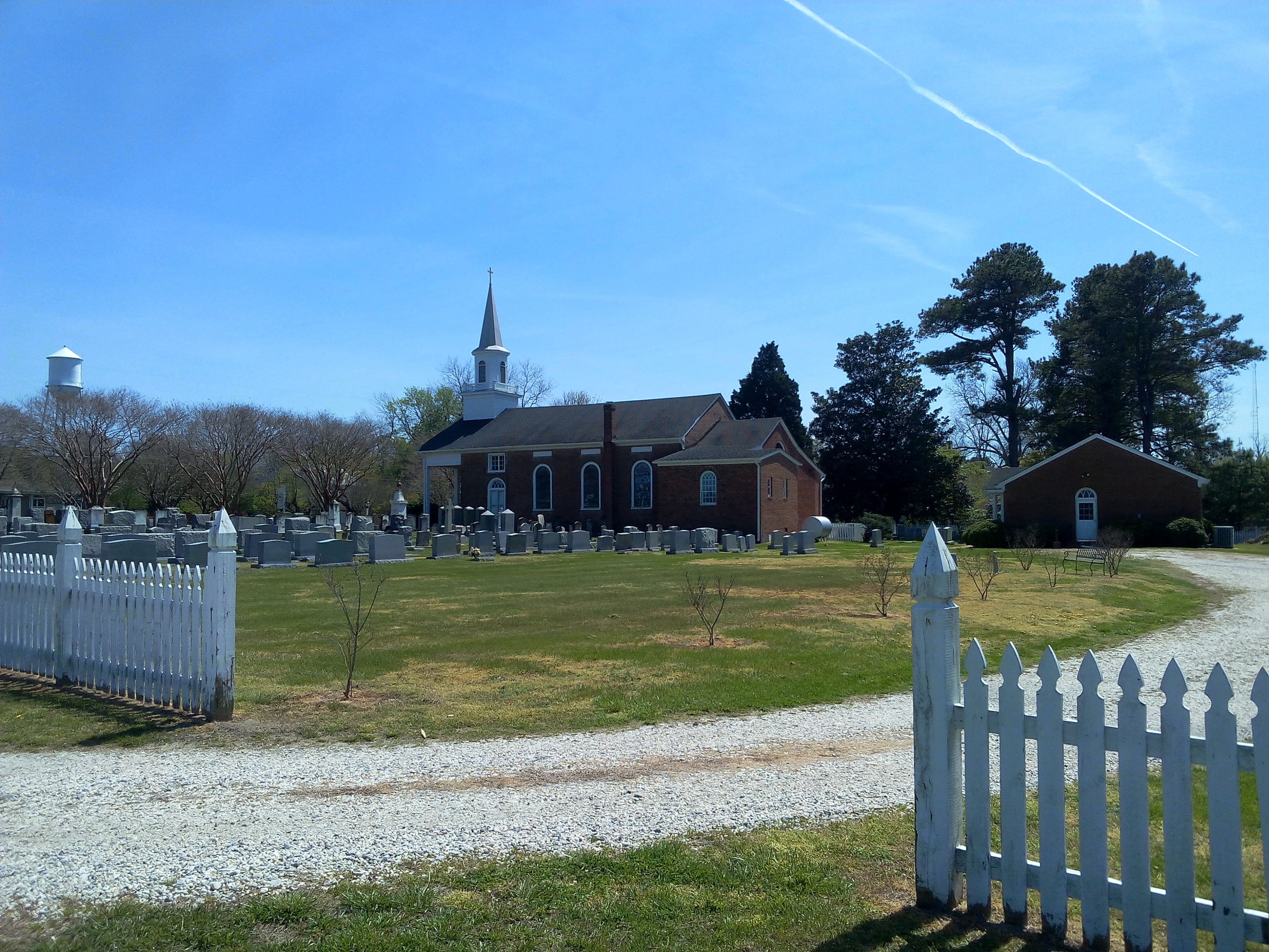 from cemetery side entrance Other information Hungars Parish has 2 historic churches but only one (modern) parish hall; HABS photo is of the parish's other church which predates this historic church by about 60 or 70 years and is about 9 miles away; Christ Church Eastville is also historic (and the parish's main church as well as a contributing property in the town's historic district) but dates from 1828